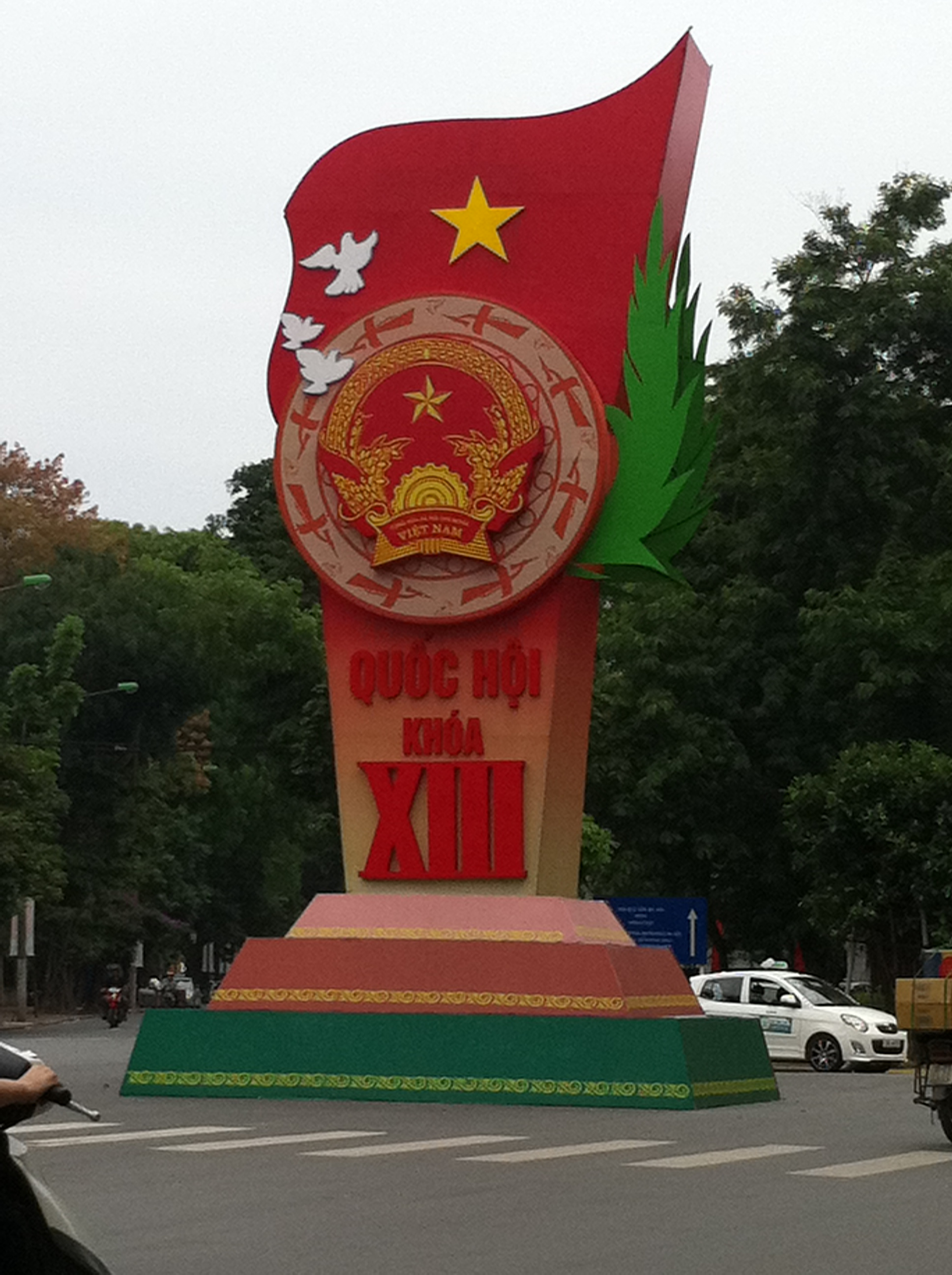 A monument of propaganda found in Hanoi, Vietnam